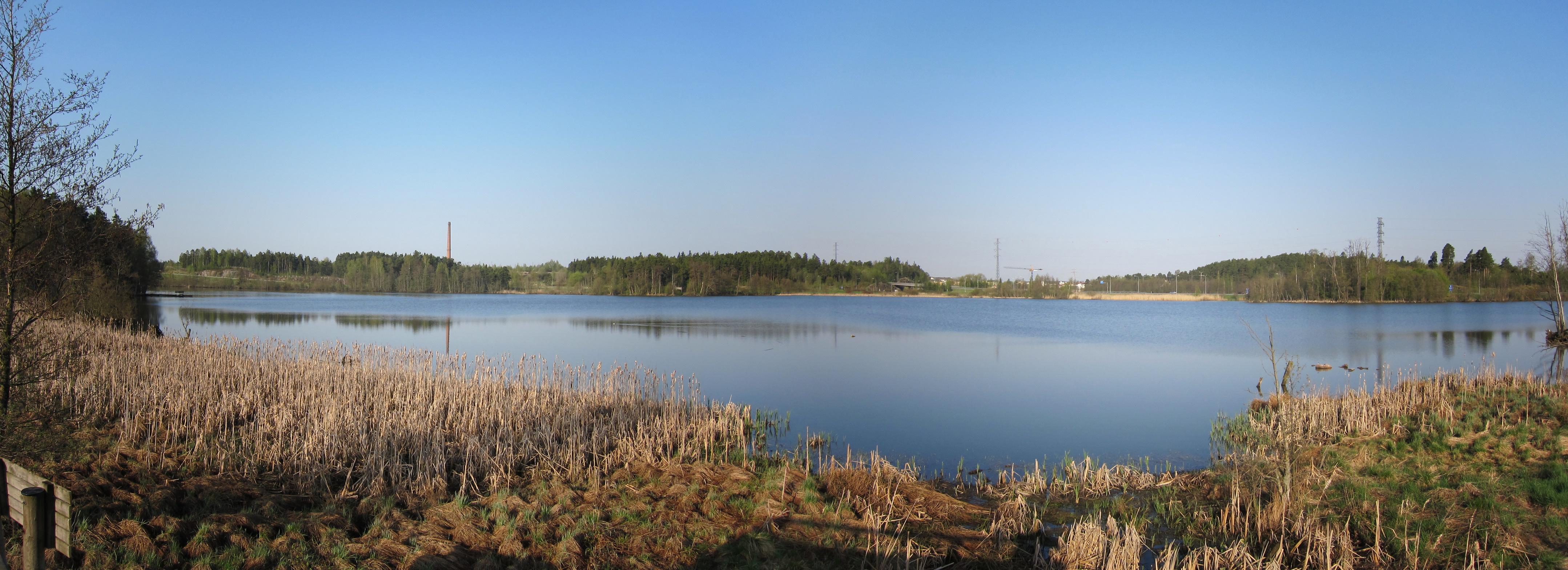 Luolalanjärvi is a lake in Naantali, Finland. In the foreground grow much bulrushs. This image was created with Hugin